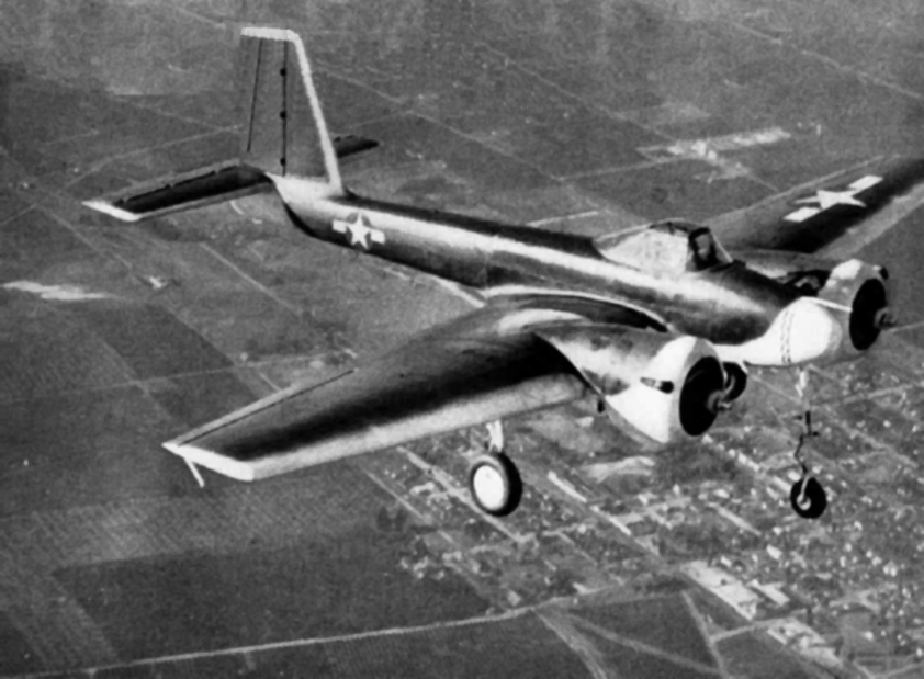 An Interstate XTD3R assault drone protoype in piloted flight.